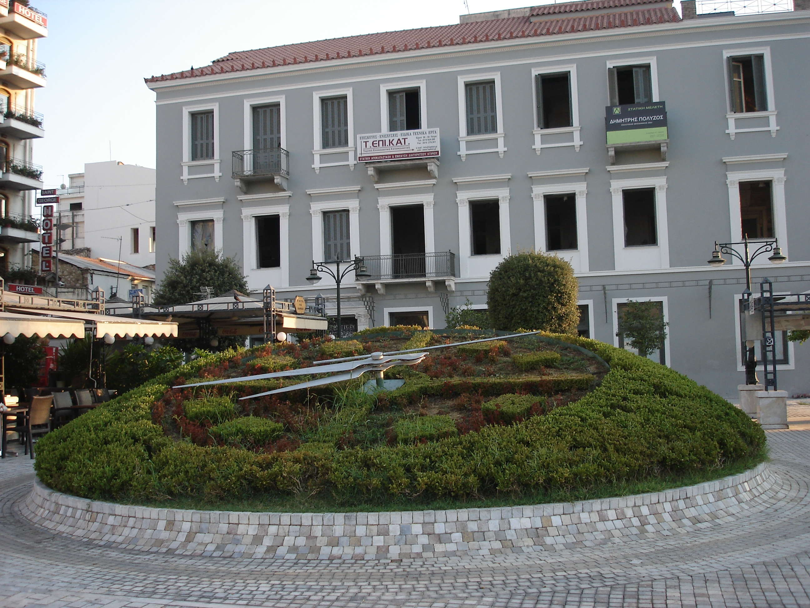 Flower Clock ahd old "Metropolis Hotel"